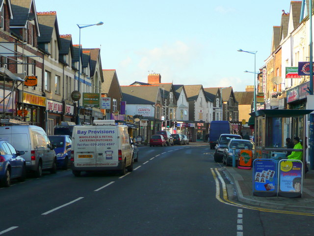 City Road, Roath, Cardiff Looking north on this busy thoroughfare leading north from the city centre.